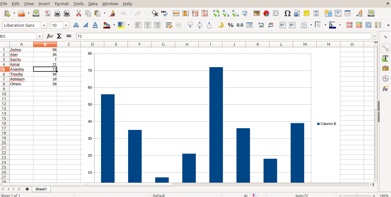 Screenshot of calc in Linux